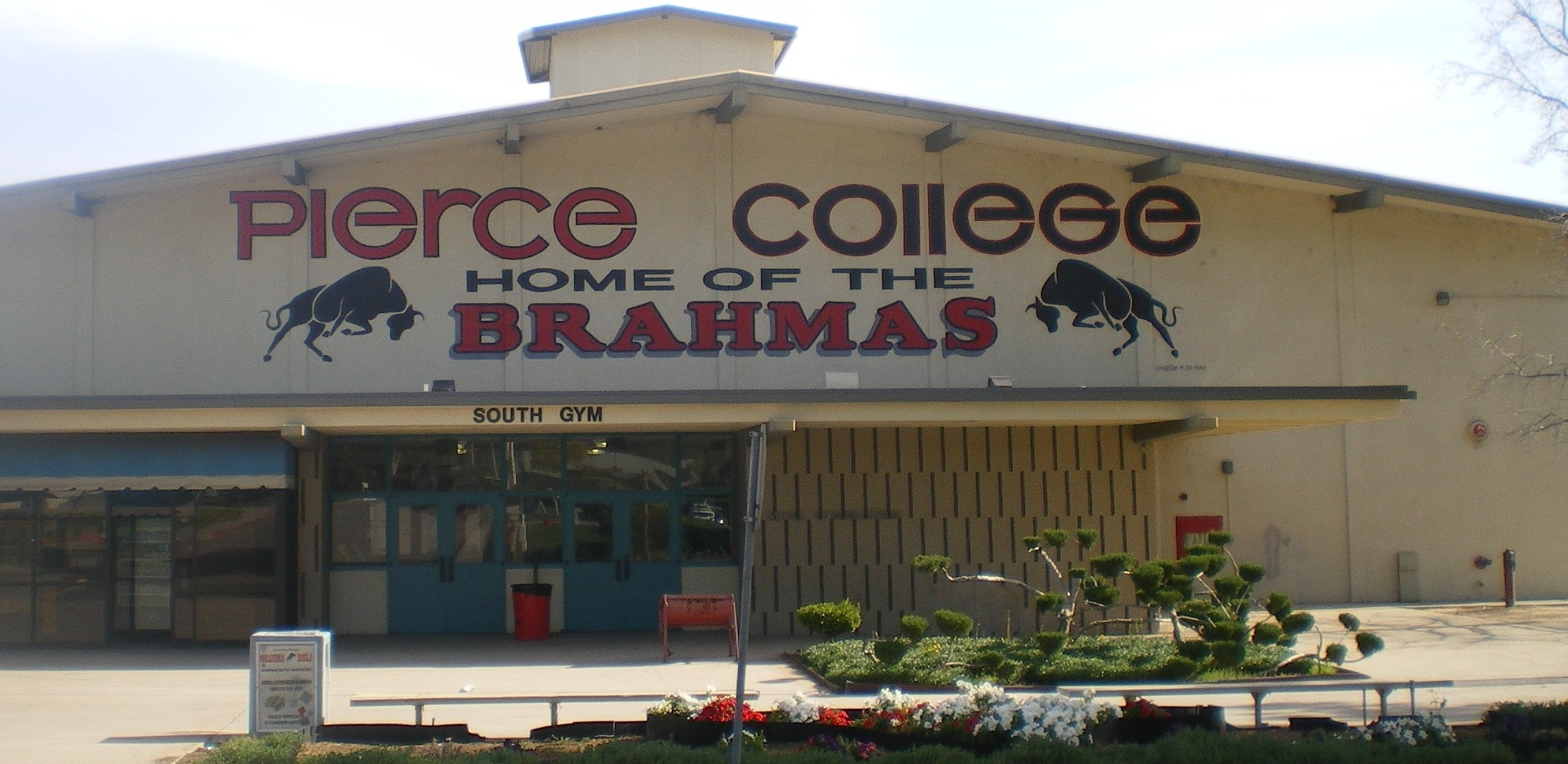 Pierce College South Gymnasium, Woodland Hills, CA Woodland Hills, CA